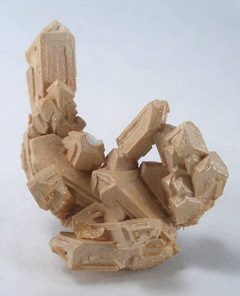 Thenardite, Mirabilite Locality: Boron, Kramer District, Kern County, California, USA (Locality at ) Size: 6.4 x 5.0 x 4.0 cm. This is a fine specimen of a California pseudomorph that is very rare and difficult to find in good specimens on the market now. What strikes you first about the specimen is that when you pick it up, it weighs almost nothing - almost like Styrofoam! Mirabilite, also known as "Glauber’s salt", is a hydrous sodium sulfate. Here, it has been replaced by thenardite, a mineral that forms from the evaporation of bodies of water (especially found in playa lakes). The super-sharp hoppered forms of the mirabilite have been perfectly preserved; they look like modern art.Ex. Jim Minette Collection. From Rock Currier: "Those specimens showing the long prismatic mirabilite were collected by Jim Minette from the settling ponds out west of the big open pit mine. They take the mud slurry from the million gallon plus round dissolving tanks that are used at the refinery to dissolve the crude borax ore and run it into the settling ponds to settle out the fine mud/clay particles. Any water that is not evaporated naturally, they run back through the system. Sometimes the water in these ponds is saturated with sulfate and under the right temperature conditions, usually early in the morning, crystals of mirabilite grow rapidly in the ponds, and in the ones that Jim collated the mirabilite grew in prismatic crystals. Some of these had a little "iron" in them, so when the crystals dried out they were pink in color. Jim would put them on the bank of the pond and when they dried enough he would take them home and spray them with Krylon plastic to preserve them." This Photo was Photo of the Day - 7th Oct 2009